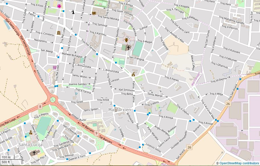 Tarxien, Malta This map may be incomplete, and may contain errors. Don't rely solely on it for navigation.